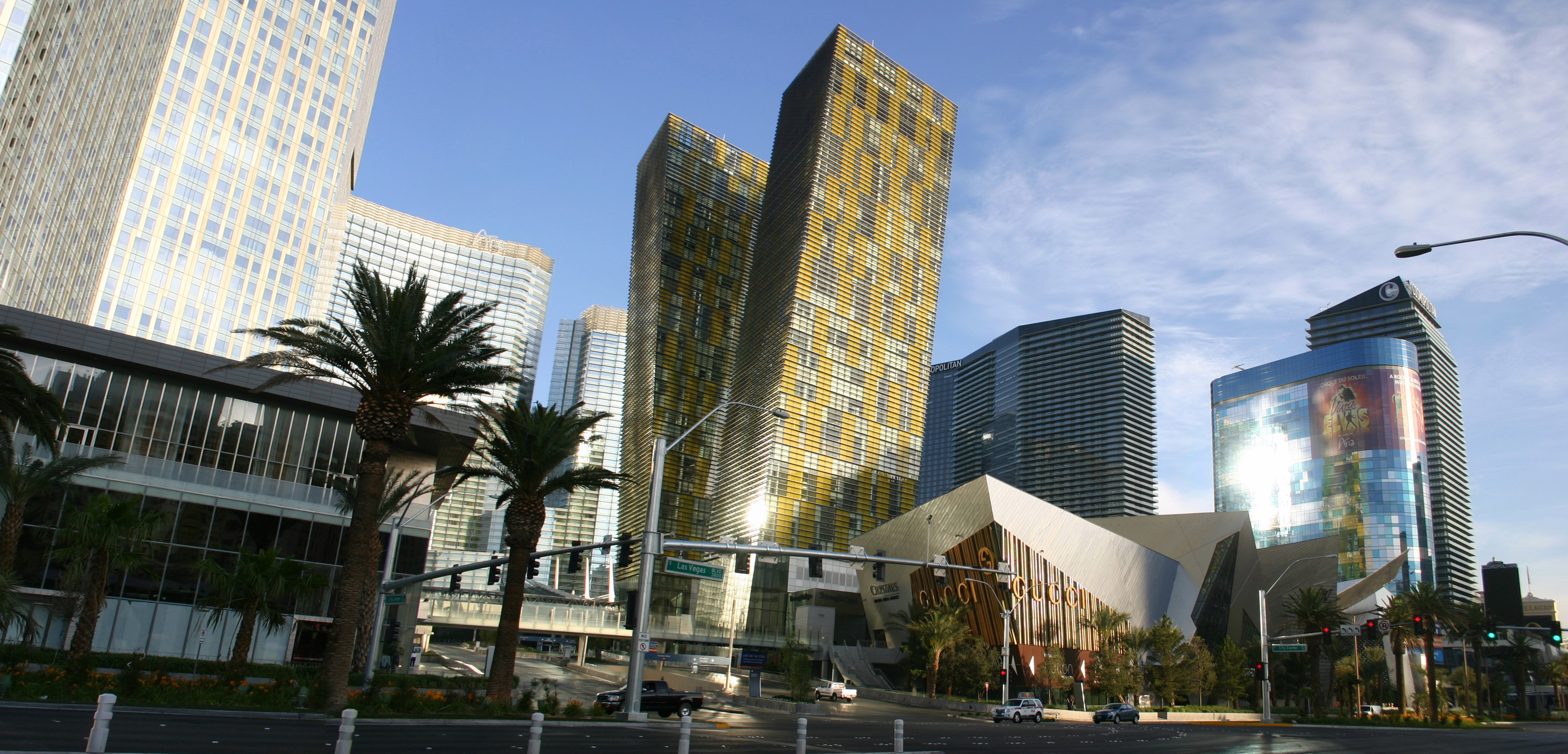 View of the south east side of CityCenter